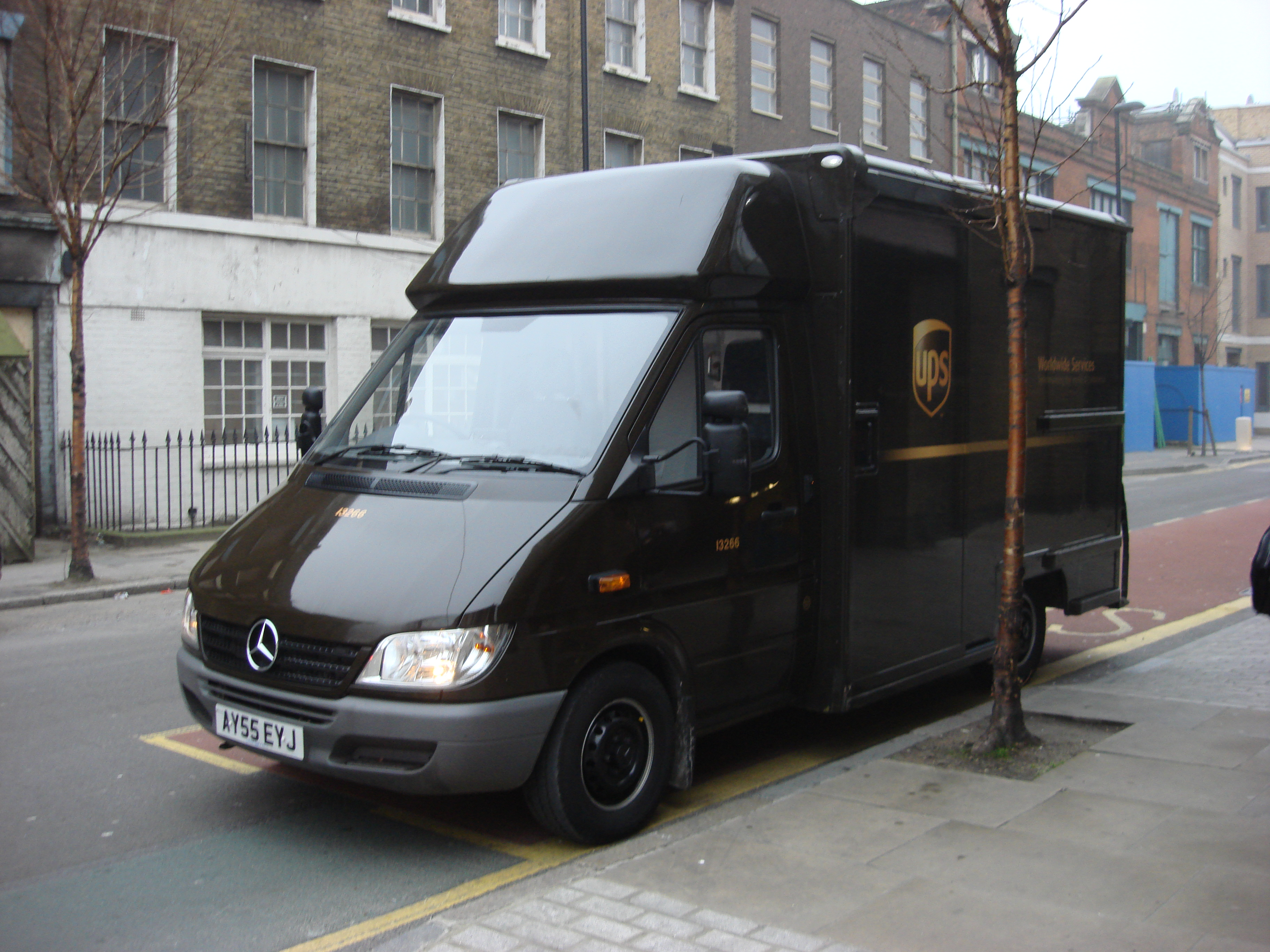 A United Parcel Service owned Mercedes-Benz Sprinter